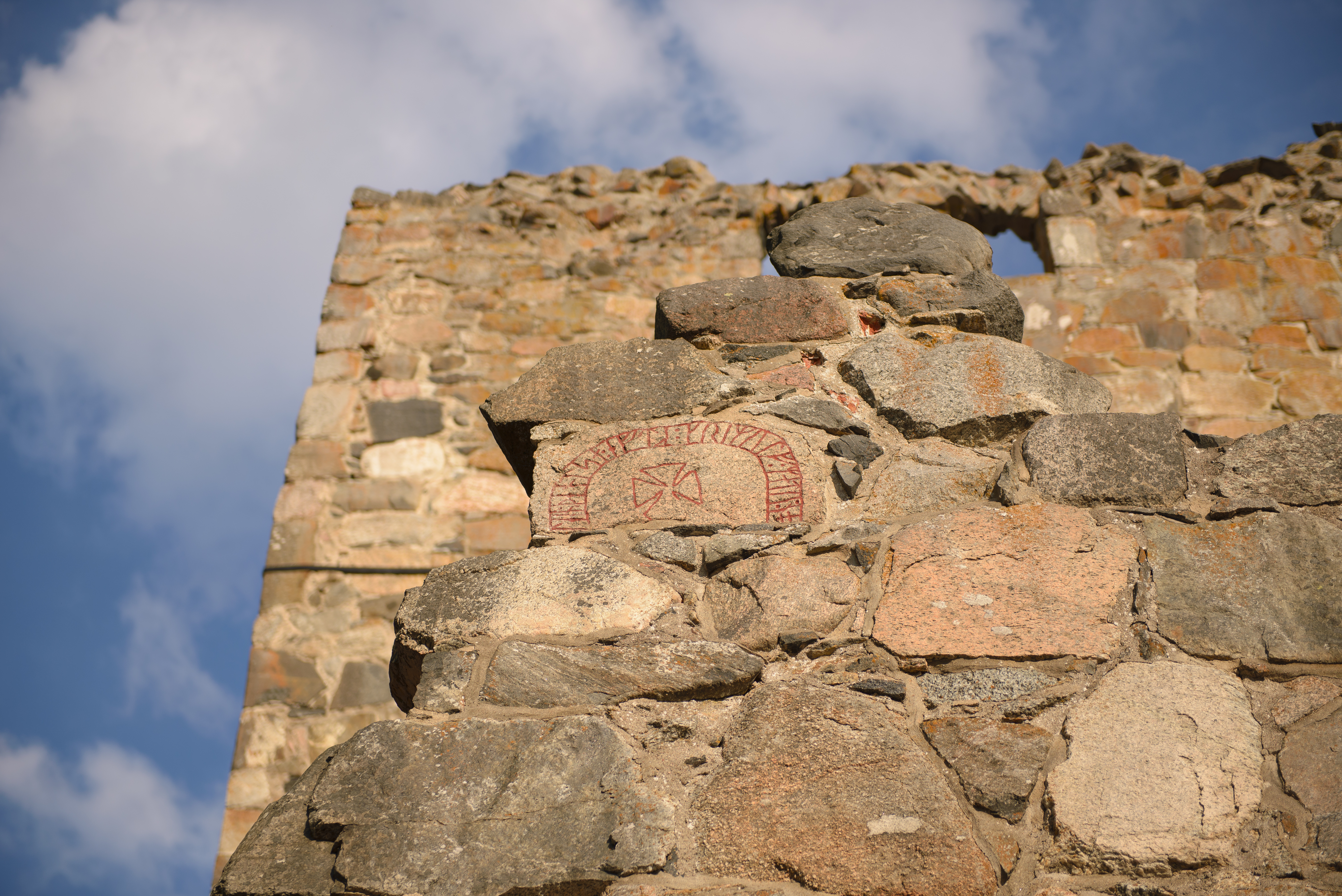 The runestonev(U 385) in in the ruins of the St Olof Church in Sigtuna.